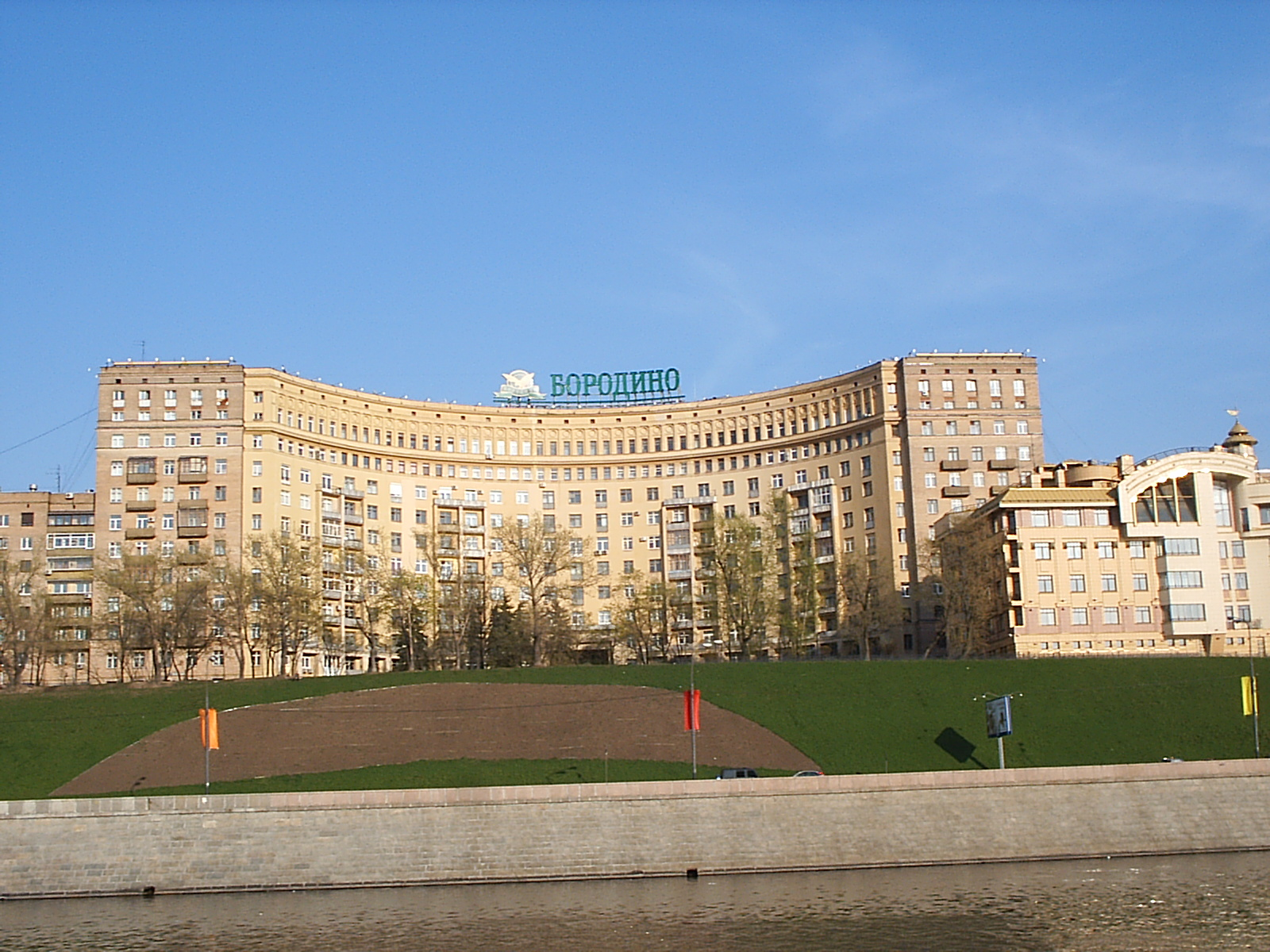 Building of Stalin epoch on Rostovskaya embankment (Moscow)